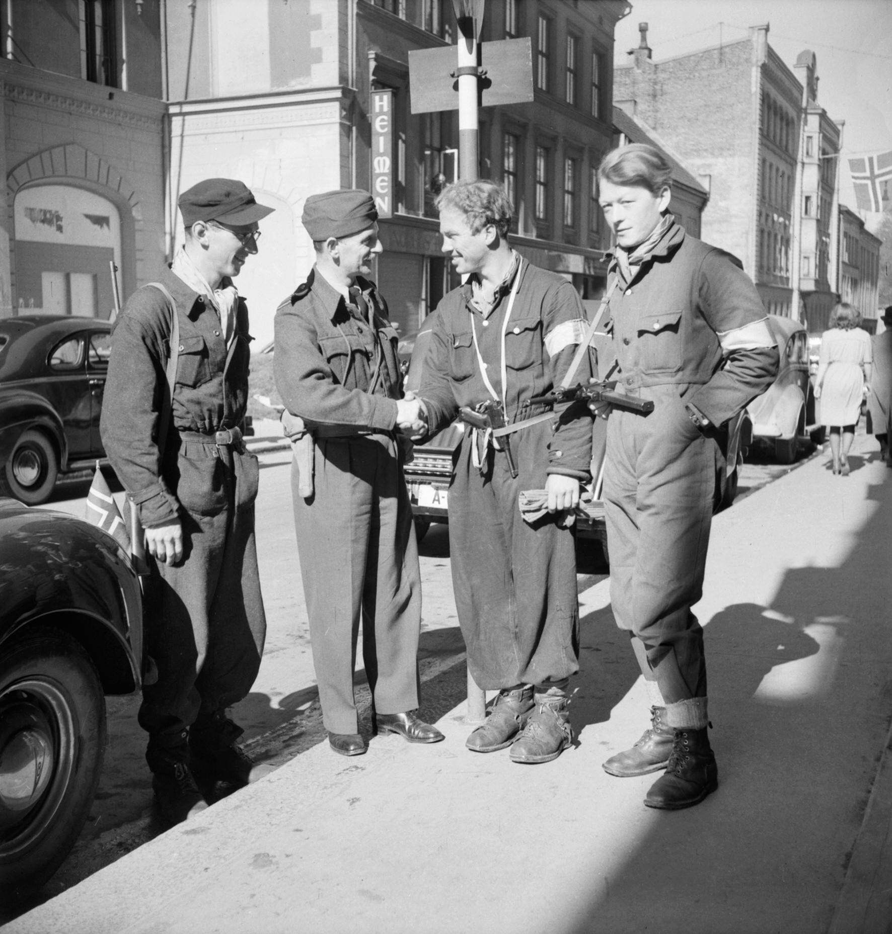 Squadron Leader J Macadam meets three Norwegian resistance fighters in Oslo following the arrival of British forces in Norway, 11 May 1945. Squadron Leader J Macadam meets three Norwegian resistance fighters in Oslo following the arrival of British forces in Norway.